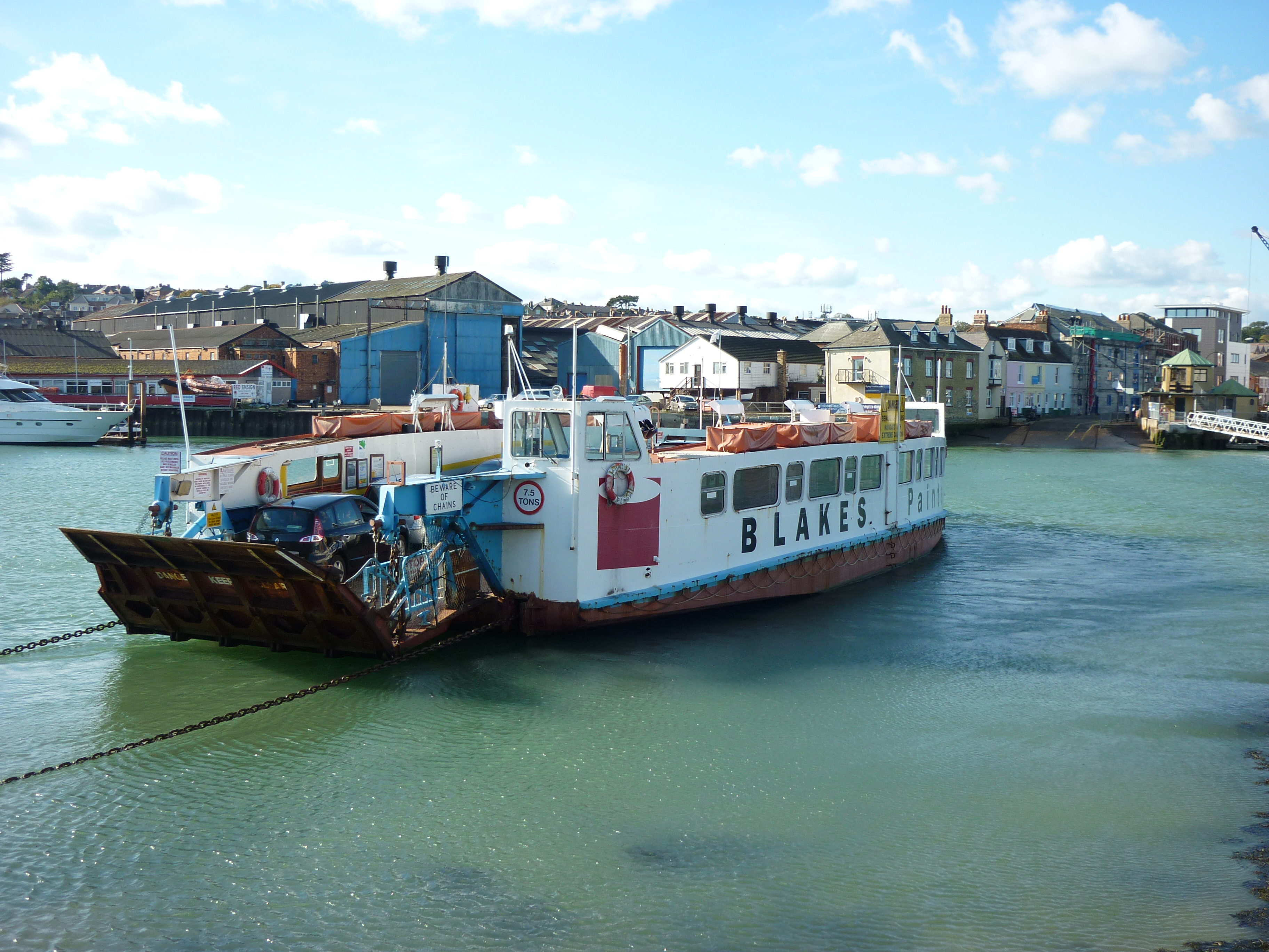 New shot of Cowes Chain Ferry at East Cowes Side.